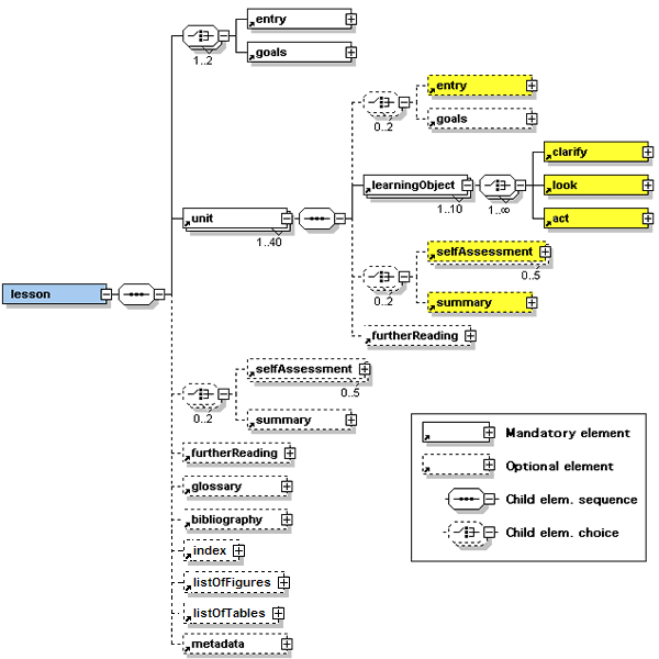 The eLML (eLesson Markup Language) schema/structure for eLessons